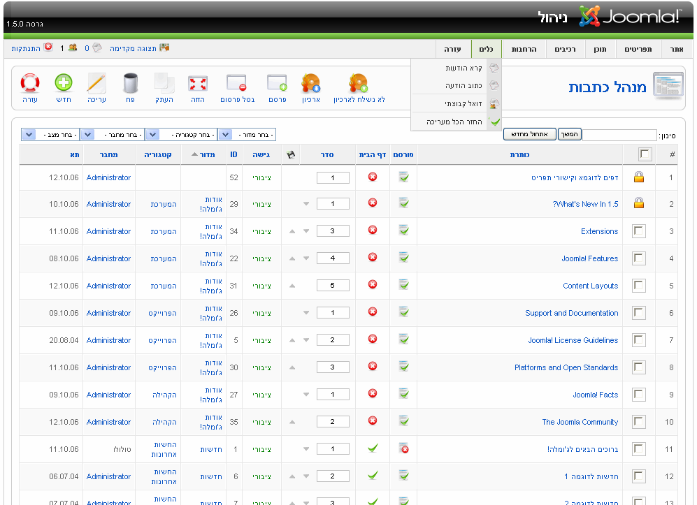 screenshot showing the Joomla backend